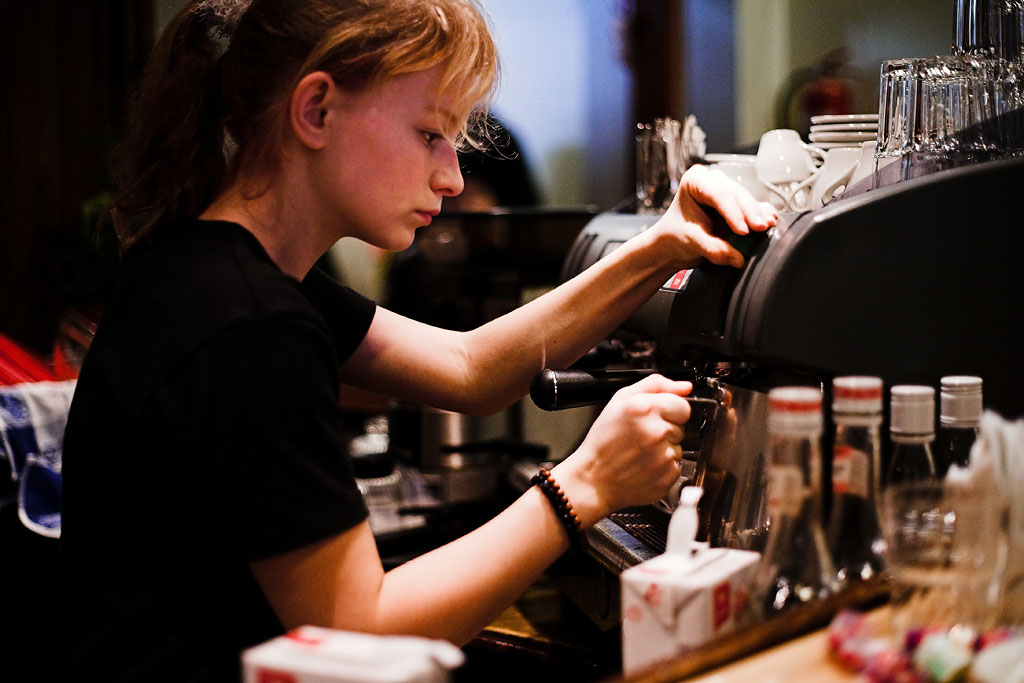 A barista in Finland.